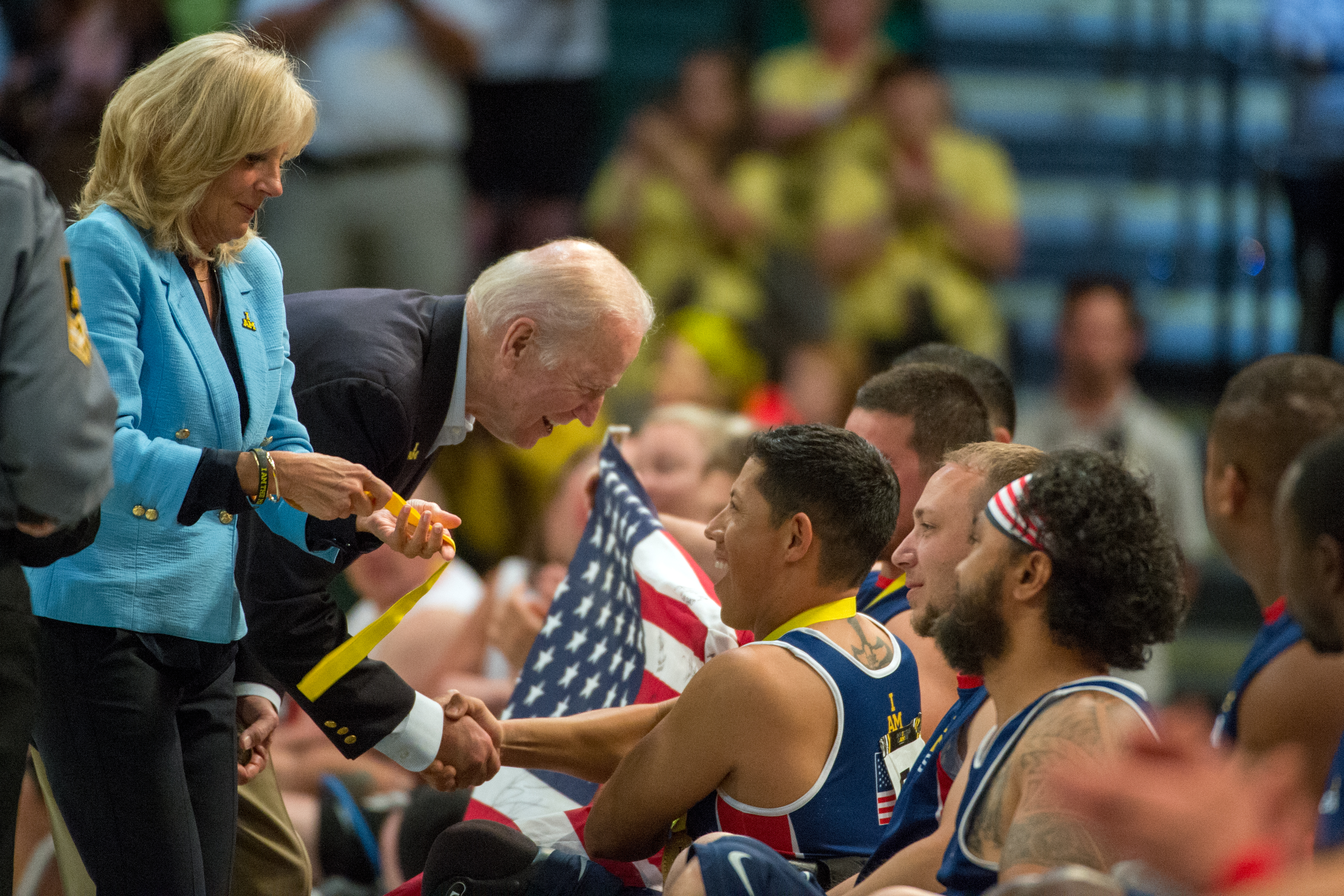 Vice President Joe Biden and his wife Dr. Jill Biden award gold medals to the U.S. Invictus wheelchair rugby team at the 2016 Invictus Games in Orlando, Fla. May 11, 2016. (DoD photo Edward Joseph Hersom II)